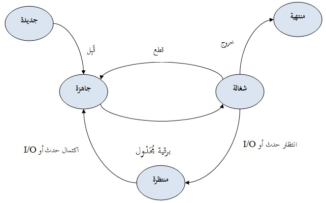 the diagram shows the relation between modes of process